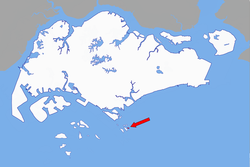 Created by Vsion